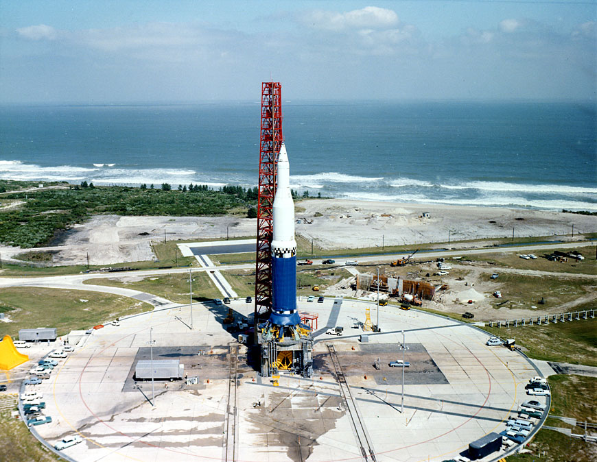 View of Saturn SA-3 at Complex 34 (note blue rain cover on 1st stage)